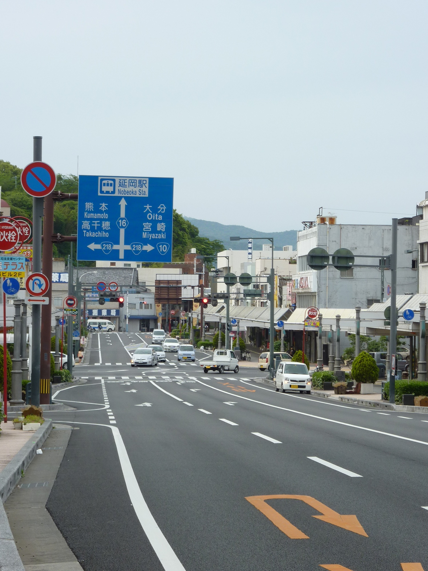 Miyazaki Prefectural Road No.16 Inabazaki-Hirabaru Line (Gion-machi 1-chome, Nobeoka City, Miyazaki Prefecture, Japan)